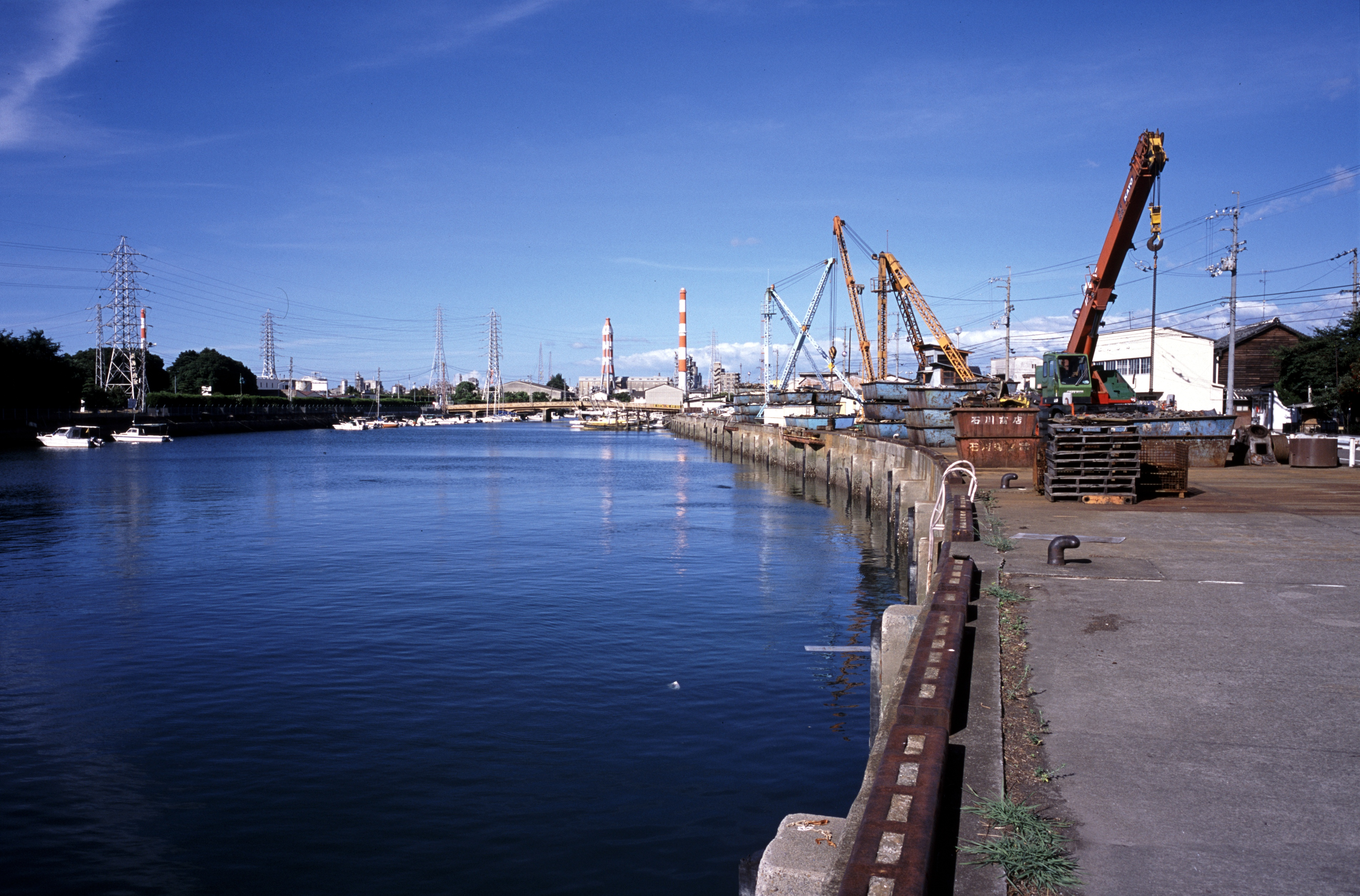 Niihama-kuchiya Canal in Niihama, Ehime pref., Japan.